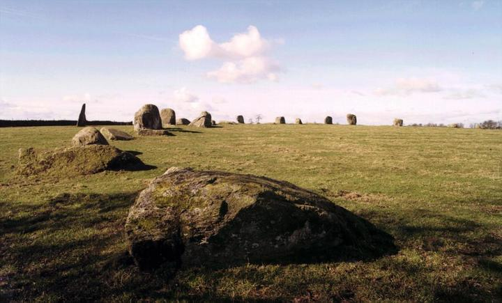 Photograph of Long Meg And Her Daughters taken my Martin McCarthy (Tumulus) 2000